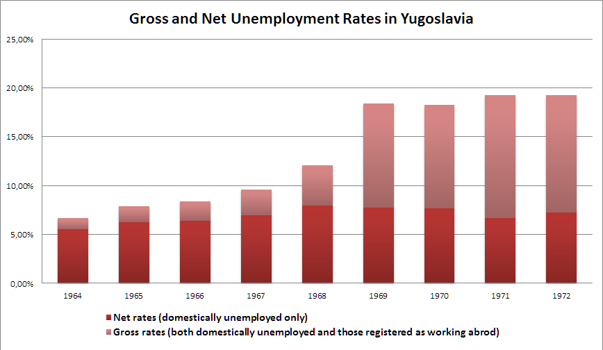 Gross and Net Unemployment Rates in Yugoslavia from 1964-1972. Net rates include domestically unemployed only. Gross rates include both domestically unemployed and those registered as working abrod (guest workers). Sources: 1. Babić and Primorac: “Analiza koristi i troškova privremenog zapošljavanja u inozemstvu, table 2. 2. Susan L. Woodward: Socialist Unemployment: The Political Economy of Yugoslavia, 1945-1990, p. 199, 378